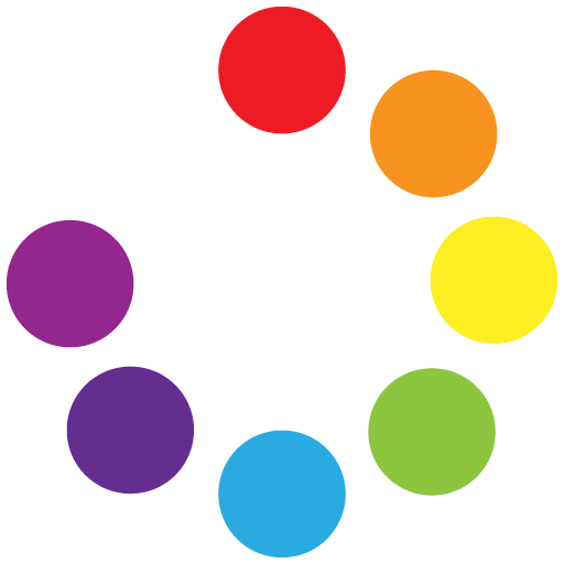 Logo of the UK not-for-profit organisation mySociety.